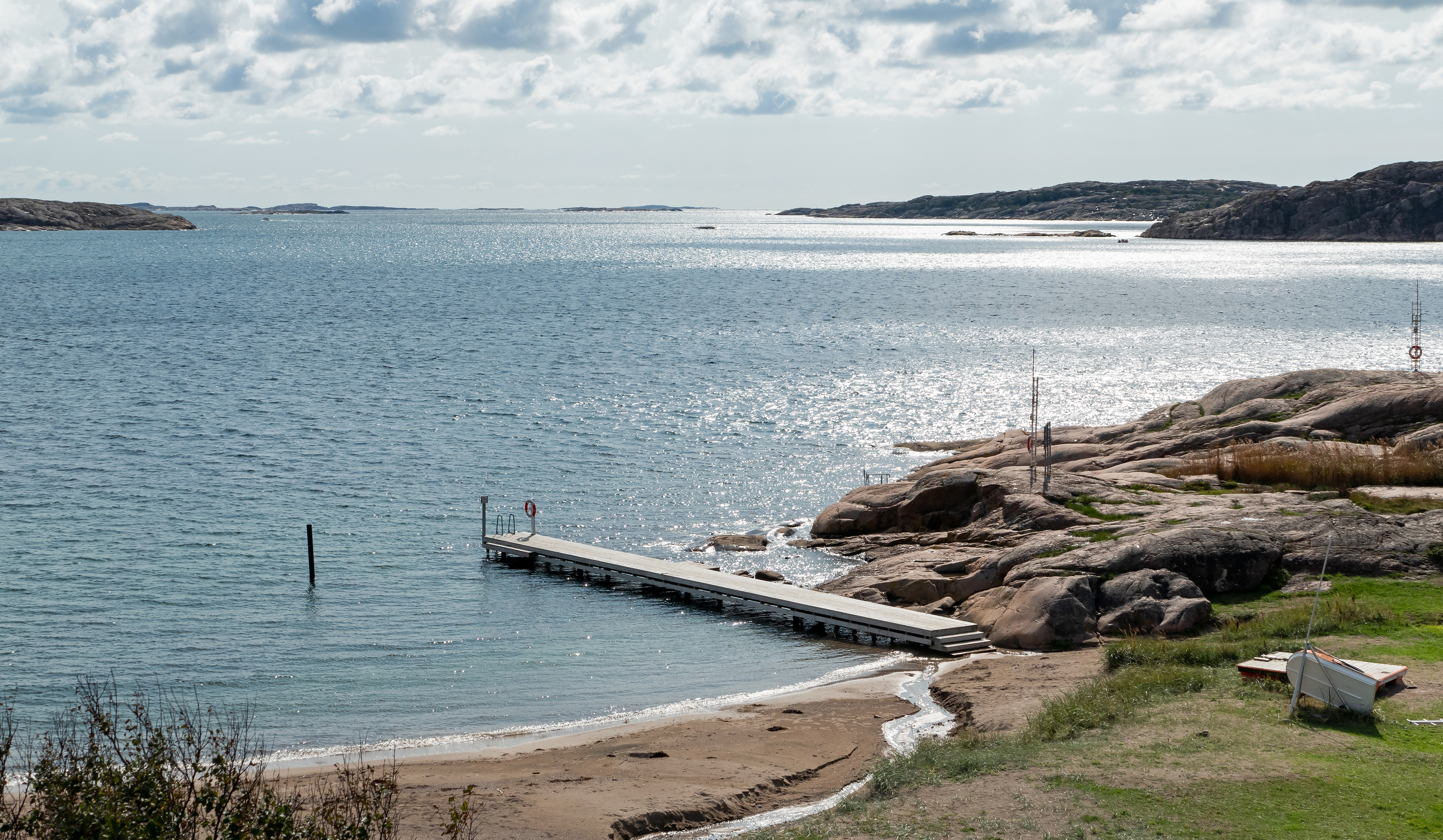 Kolleröd beach in south Kolleröd, Lysekil Municipality, Sweden.